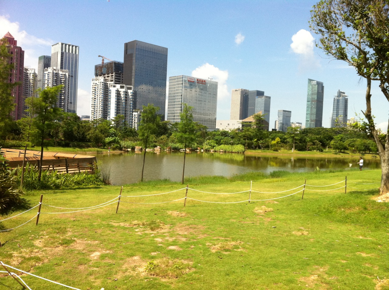 A lake at Shenzhen Lianhuashan Park